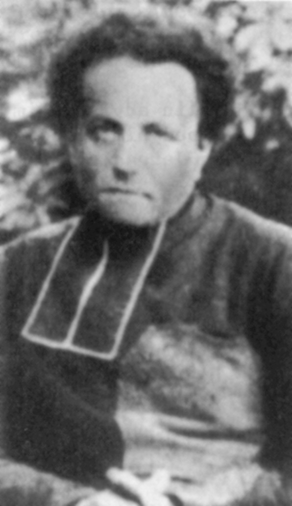 Abbé Henri Huvelin